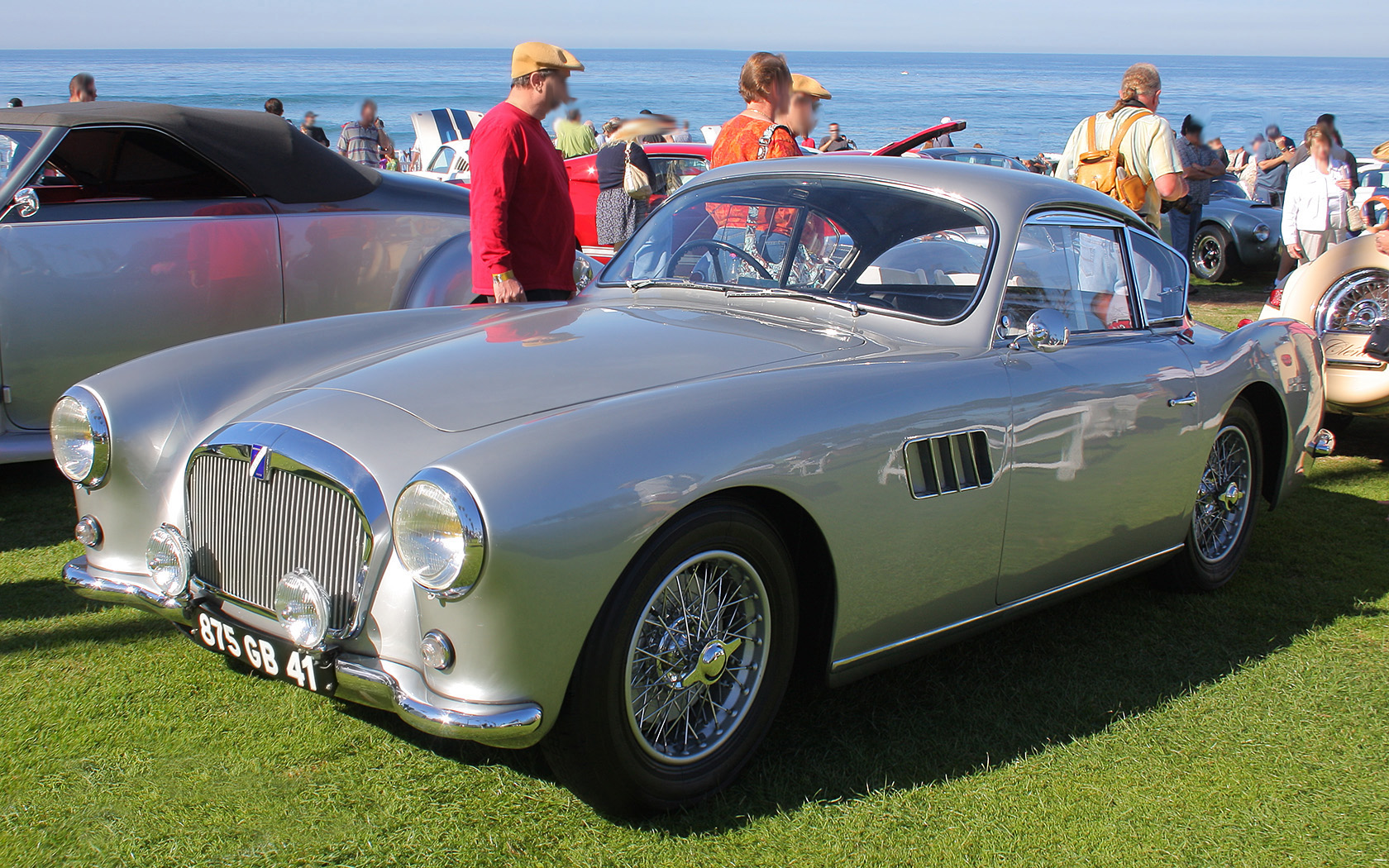 1956 Talbot-Lago T14 LS at La Jolla Motor Car Classic, Jan 10, 2010